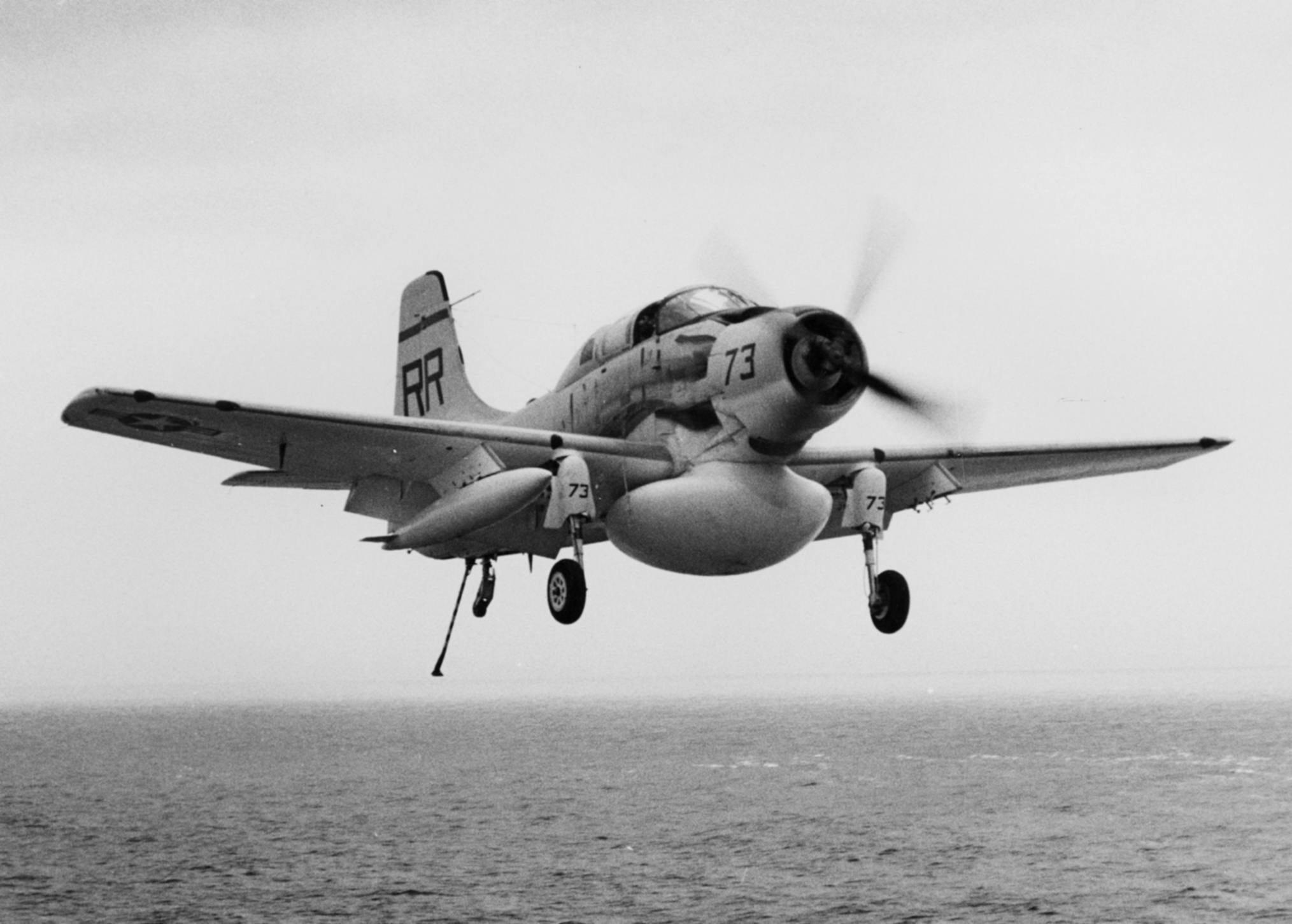 A U.S. Navy Douglas AD-5W Skyraider (after 1962 EA-1E) from Carrier Airborne Early Warning Squadron VAW-11 Det.Q Early Eleven coming into landing on the aircraft carrier USS Bennington (CVS-20). VAW-11 Det.Q was assigned to Carrier Anti-Submarine Air Group 59 flying the AD-5W aboard the Bennington from 1960 to 1964 before transitioning to the Grumman E-1B Tracer.